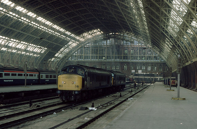 Resting Between Duties 45102 and 45103 wait in St Pancras station. A crew is in the cab of 45102, so she will probably be away soon. The beauty of William Barlow's magnificent trainshed is evident. Fittingly for the Midland Railway's London terminus, it was constructed by the Derbyshire based Butterley company in 1868. At the time of its completion it was the largest single span structure in the world.